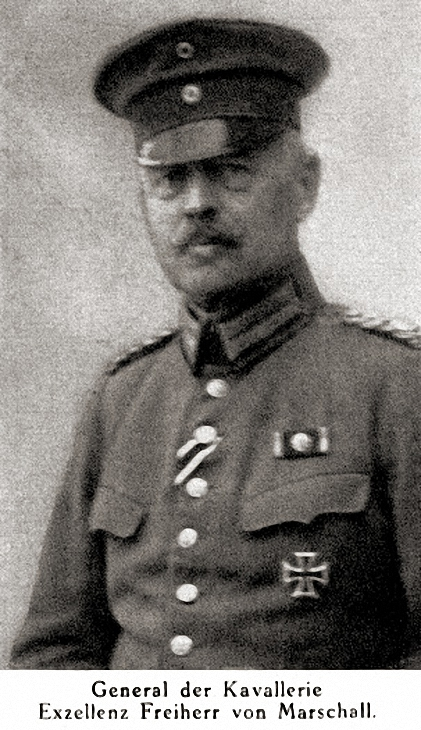 prussain general Wolf Rudolf Freiherr Marschall von Altengottern